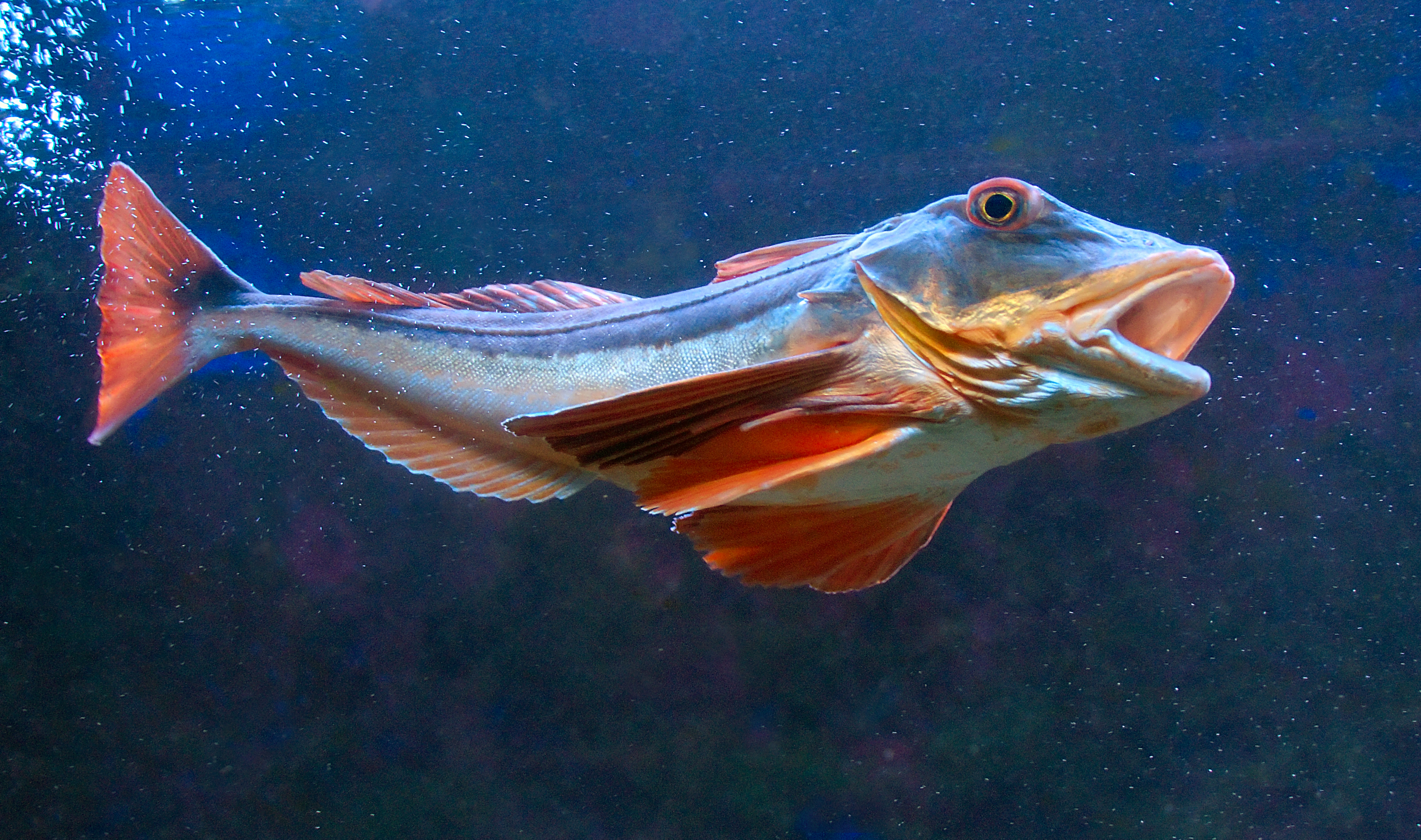 Chelidonichthys lucernus Aquarium museum ARAGO (Banyuls sur mer) France